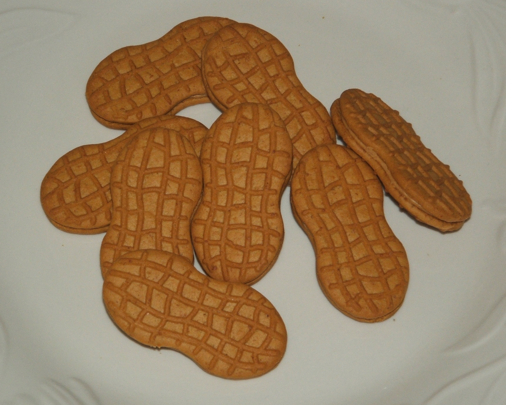 Nutter Butter peanut butter sandwich cookies by Nabisco, a division of Kraft Foods Global, Inc., Northfield, IL (USA)